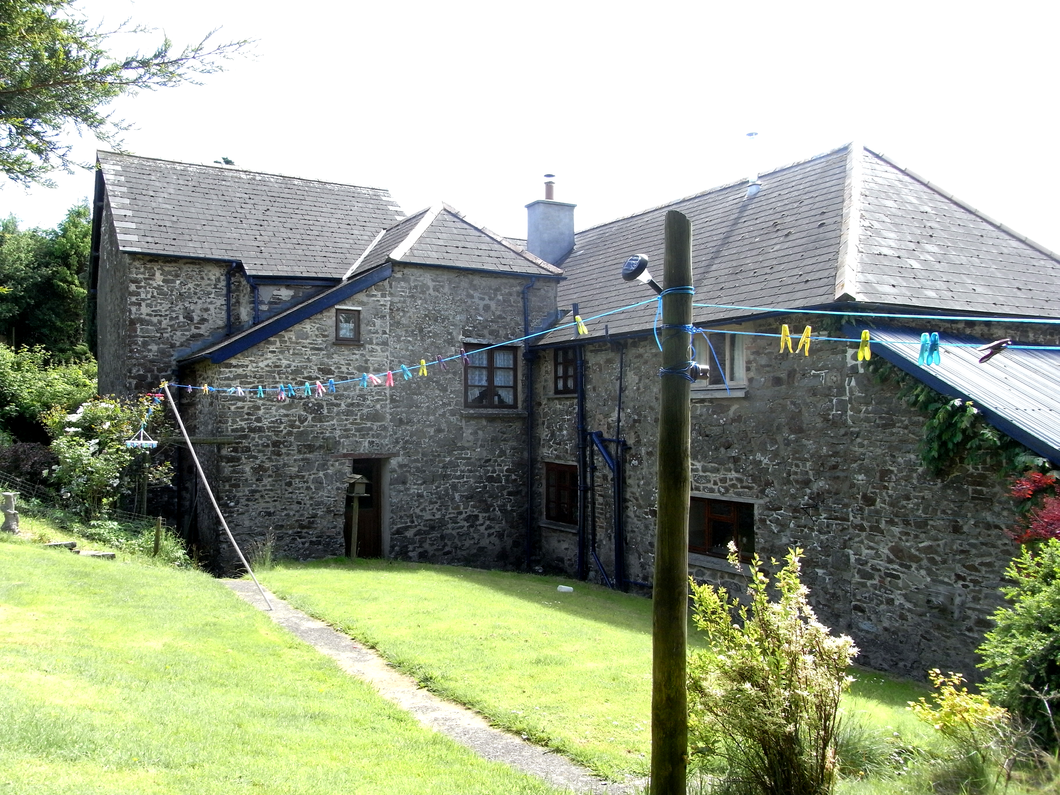 Townhouse Barton, South Molton, Devon, birthplace of Hugh Squier (1625-1710), benefactor of South Molton. Viewed from north-east. Situated about 1 3/4 miles west of the centre of the town of South Molton, on the road to Chittlehampton. In 2015 the property of the Countess of Arran's Castle Hill estate, Filleigh